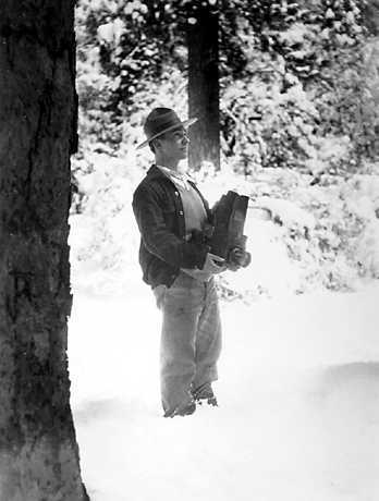 Biologist George Melendez Wright in Yosemite National Park, the assistant park naturalist at the time.